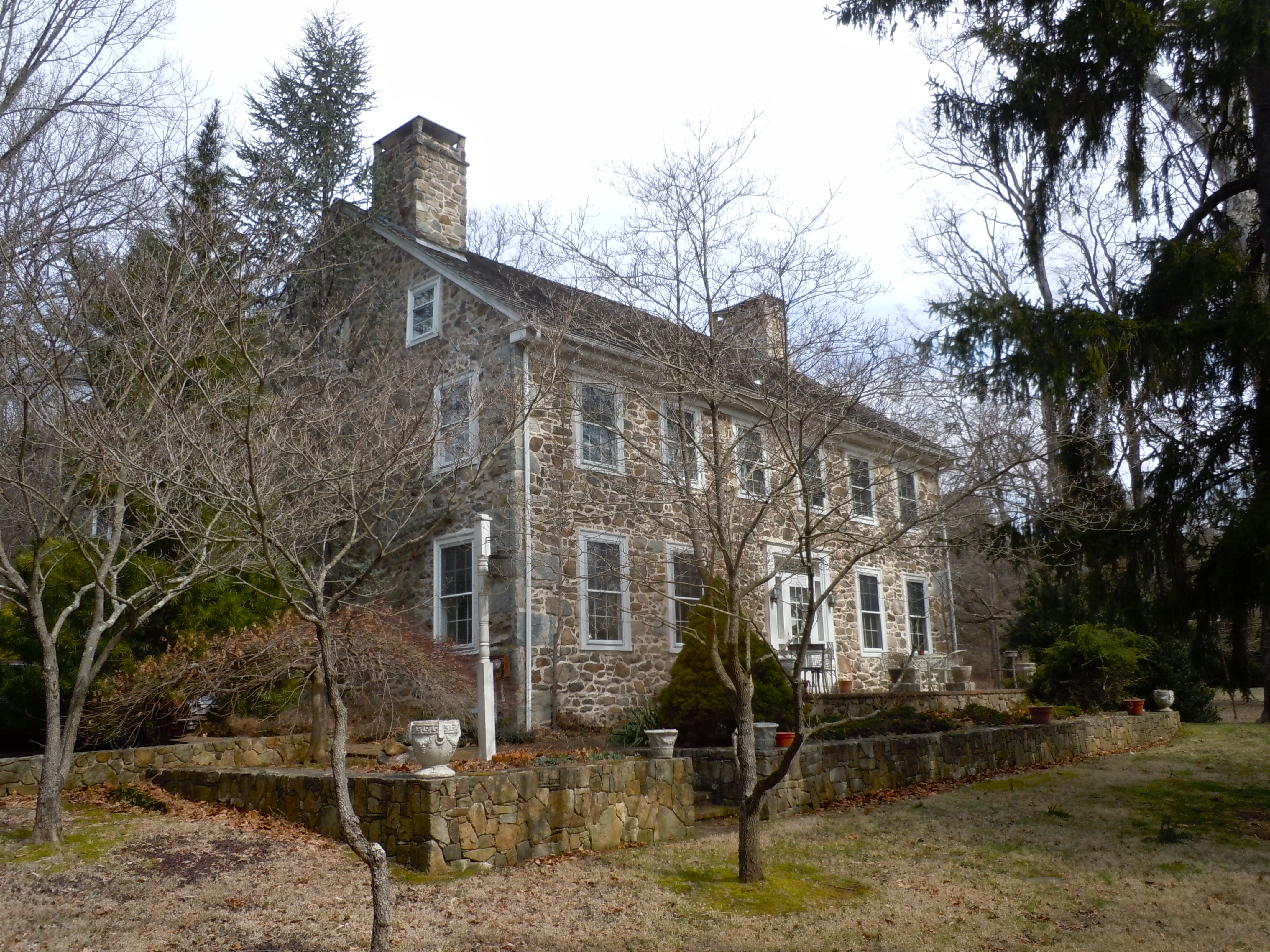 William Ferguson Farm on the NRHP since April 10, 1980. Located east of Glen Moore on Marshall Road in Wallace Township, Chester county, Pennsylvania.